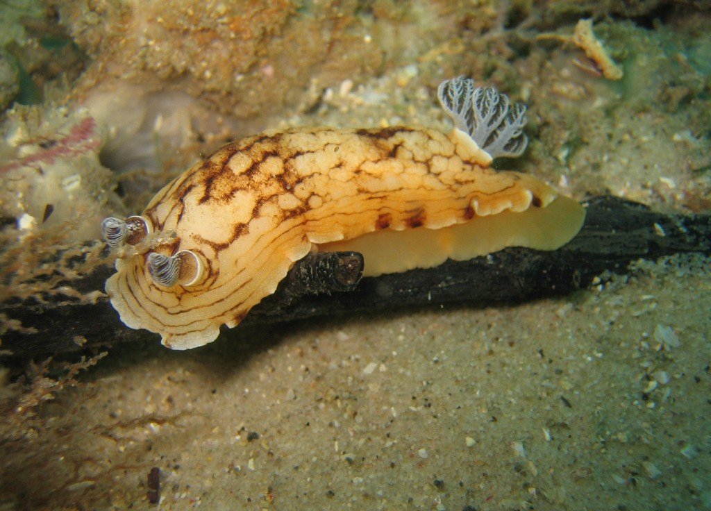 A Variable Aphelodoris nudibranch (Aphelodoris varia). Halifax Point, Port Stephens, NSW163929909